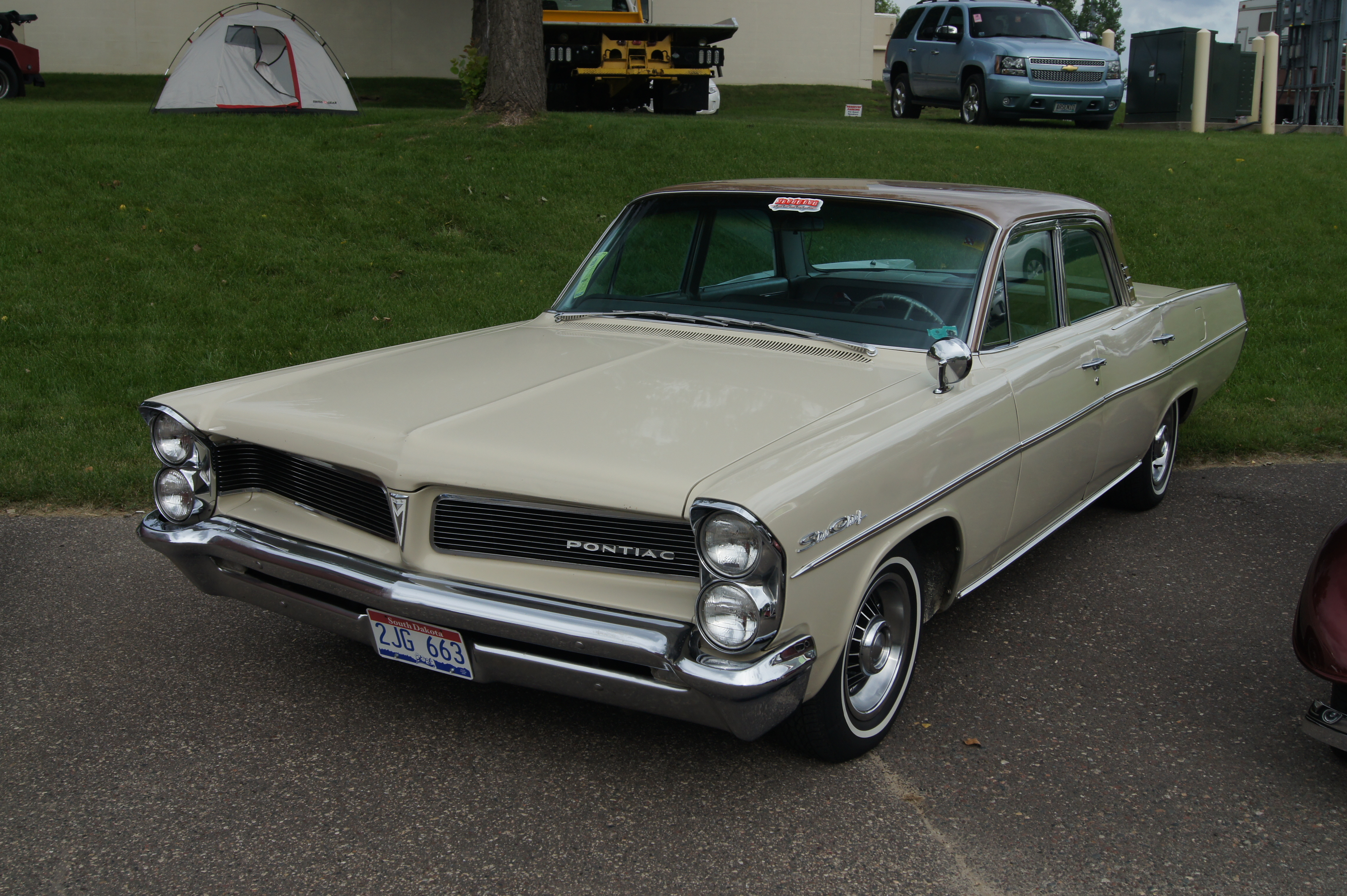 MSRA “BACK TO THE 50′s” 42nd Annual June 19-21, 2015 State Fairgrounds St. Paul Minnesota Click here for more car pictures at my Flickr site.